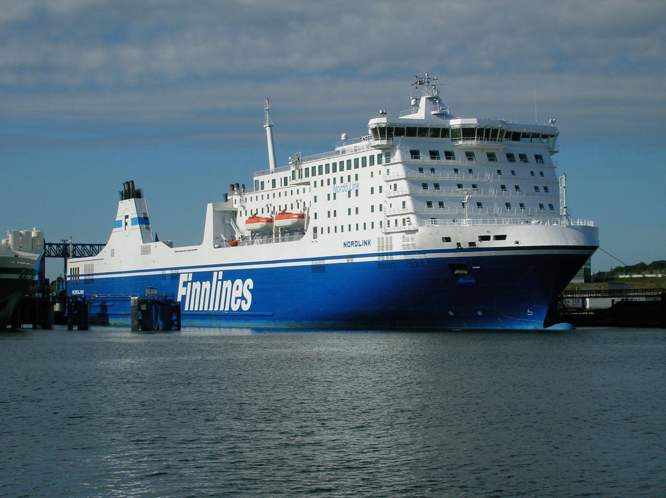 The M/S Nordlink at the Skandinavienkai in Travemünde (2008)